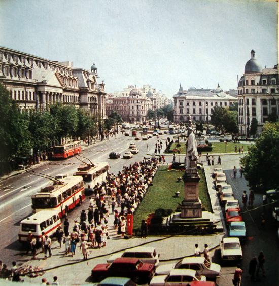 Trolleybuses at University Square, Bucharest in possibly the second half of the 1970s, or the early 1980s. Note, that articulated trolleybuses are already in use.